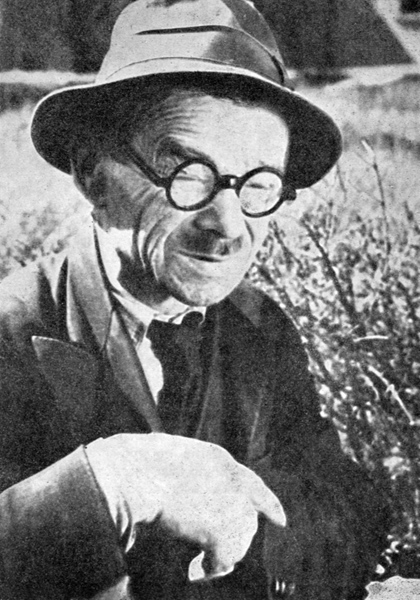 Nikifor Krynicki (Epifanius Drowniak) autodidact painter